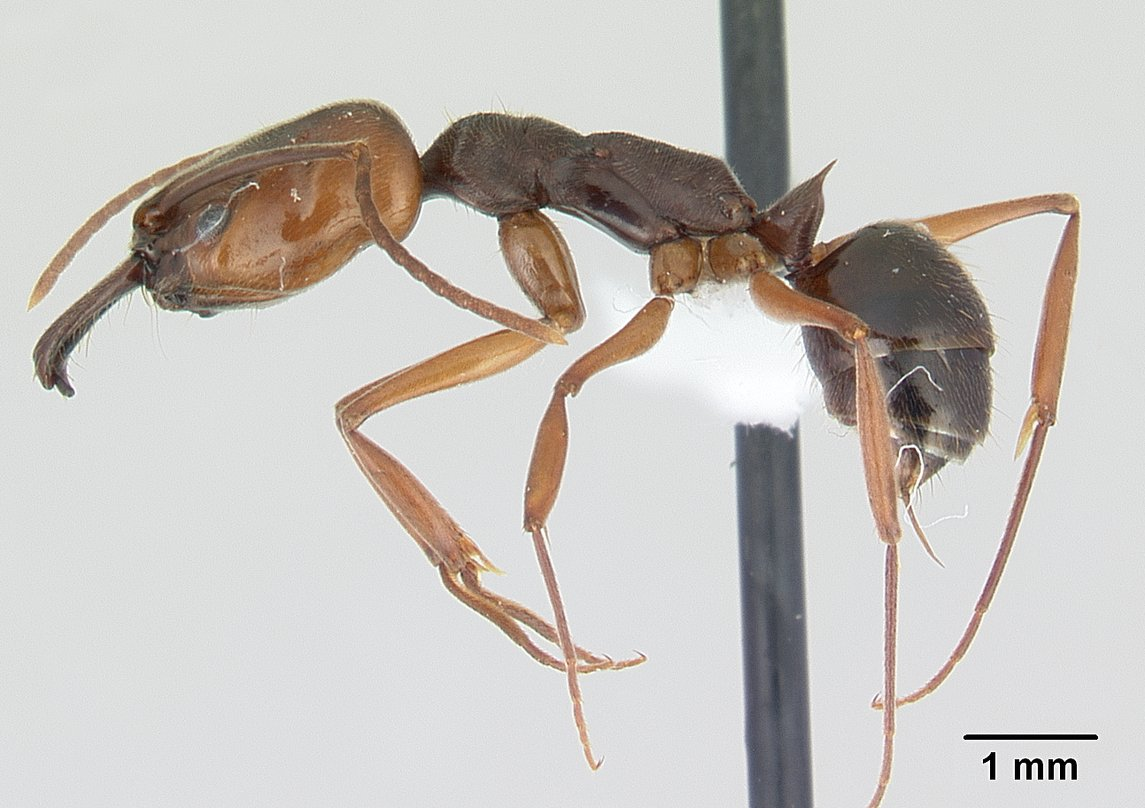 Profile view of ant Odontomachus ruginodis specimen iccdrs0013038.